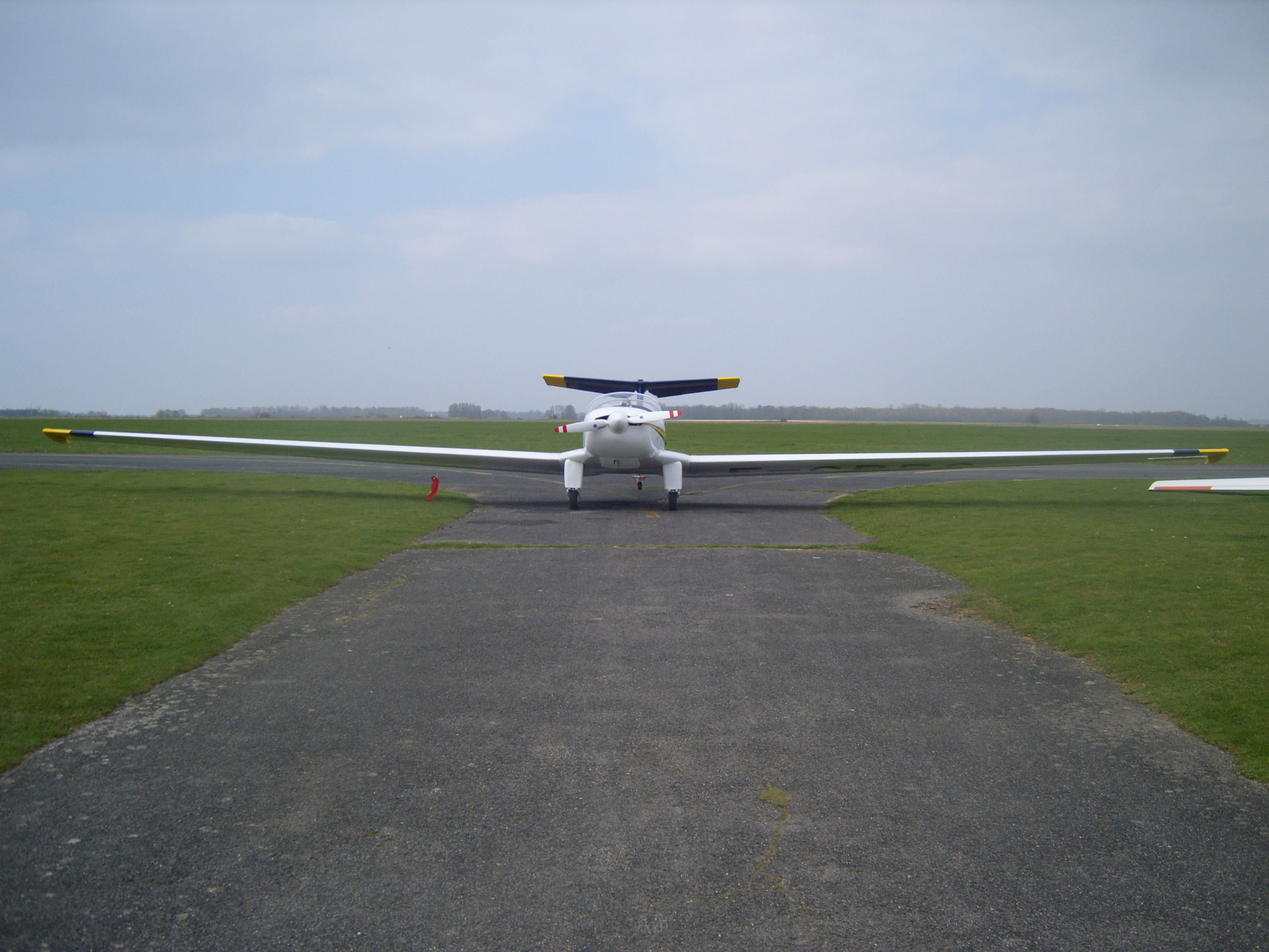 Number 55 build in 1982 in Brasov - Romania